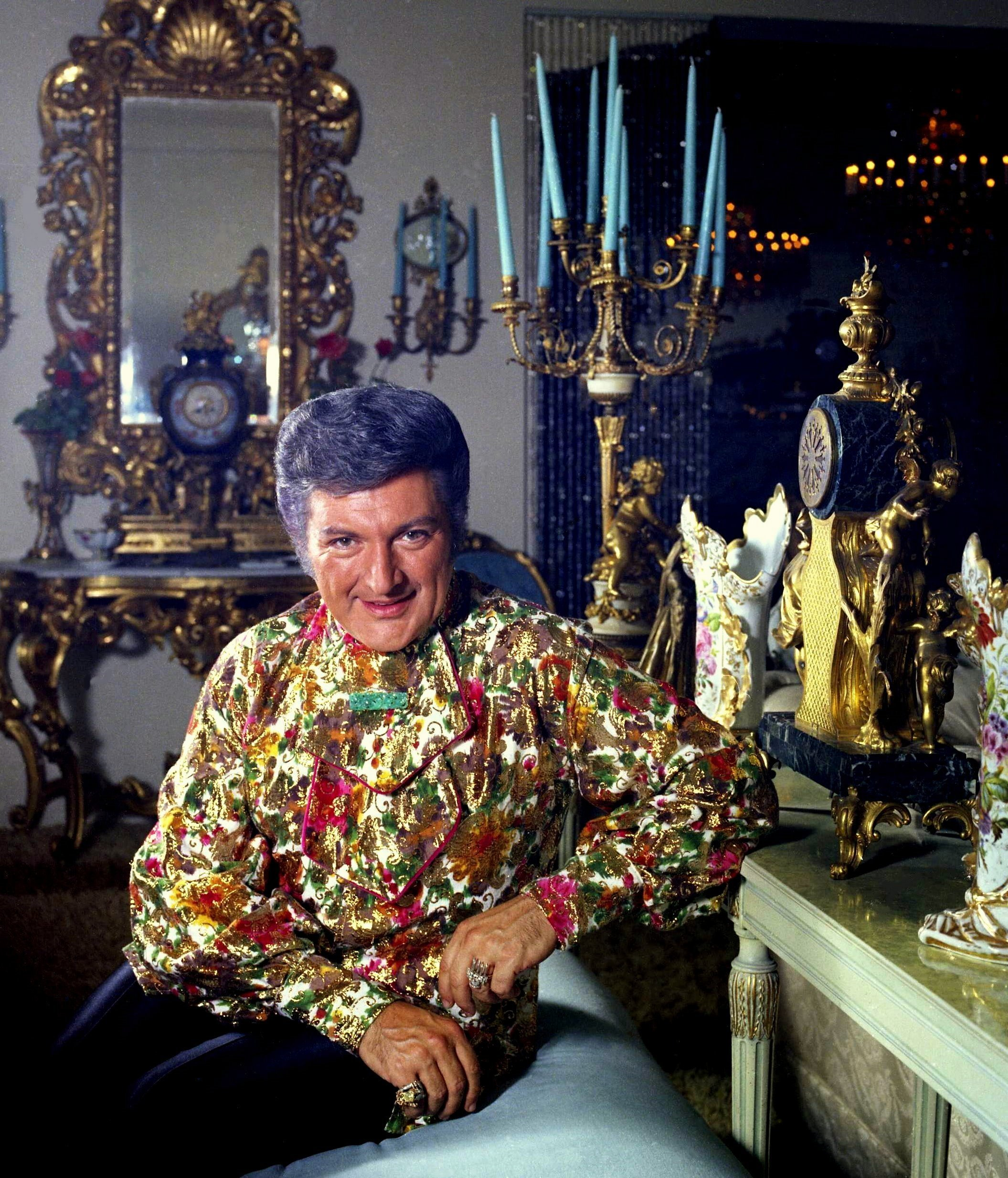 Portrait of Liberace at home Los Angeles